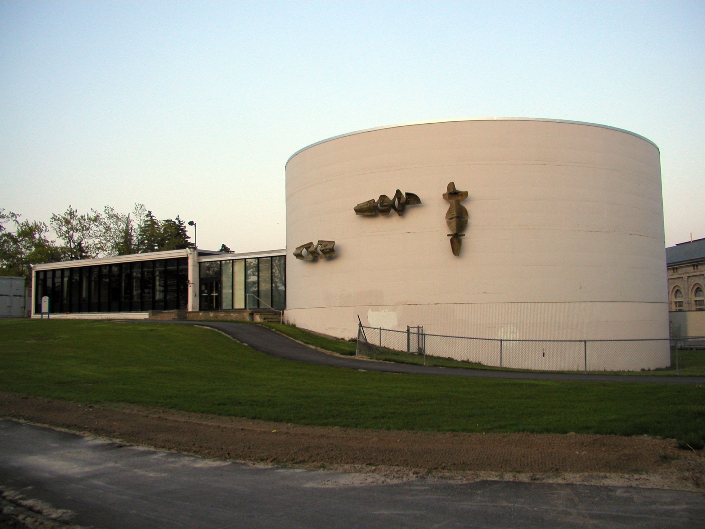 Decommissioned, small nuclear reactor located on the south campus of the University at Buffalo, The State University of New York.